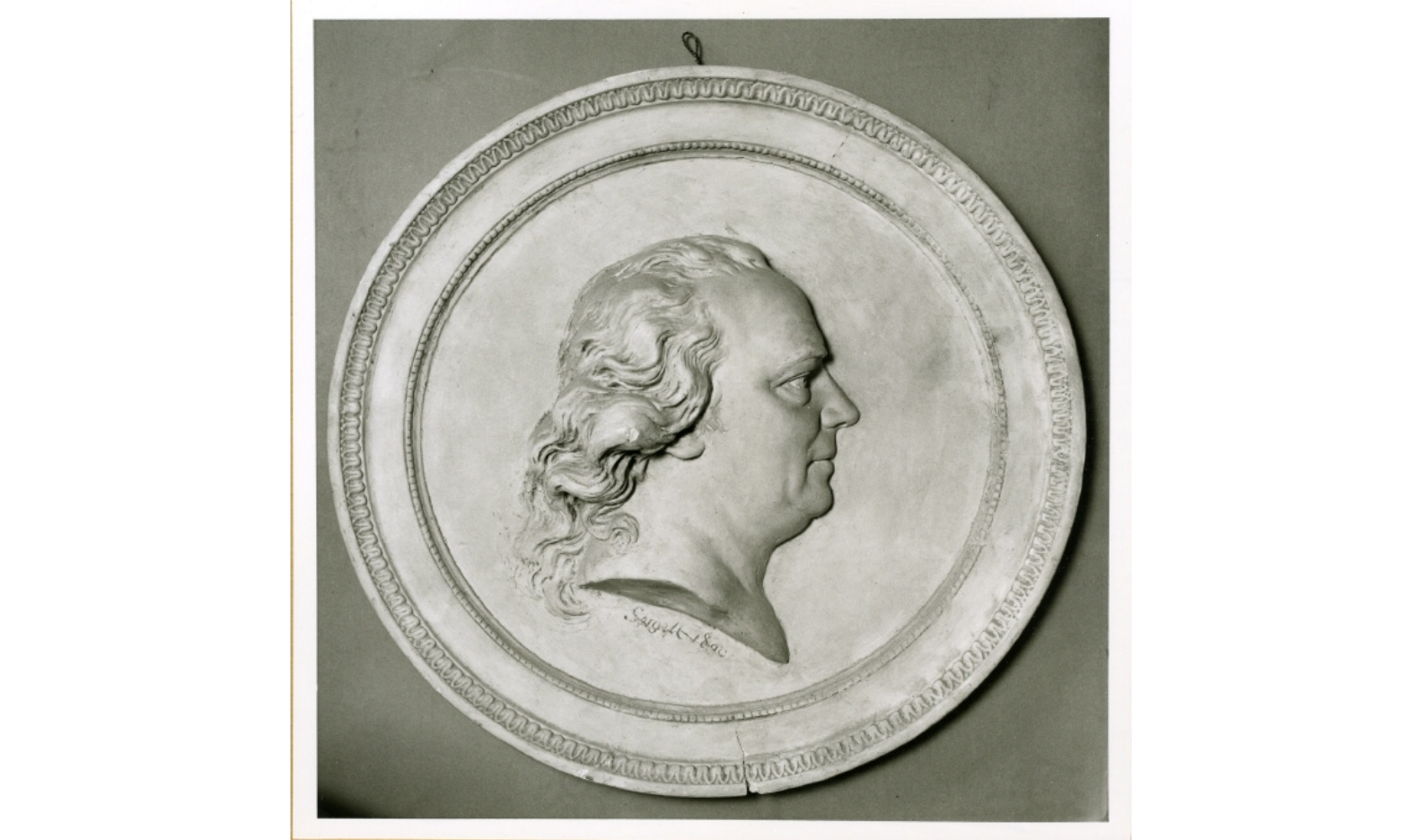 Henrik Gahn the elder (1747-1816), relief portrait by Johan Tobias Sergel.